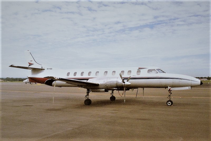 This ex-Kendell Airlines Fairchild Swearingen SA226-TC Metro II, retired from the airline's fleet in the mid-1990s, is still wearing the colour scheme Kendell introduced in the 1970s, sans titles. Image scanned from a 6"x4" photograph of VH-KGX taken by YSSYguy at Bankstown Airport in Sydney, New South Wales circa January 1999 and uploaded for use in the Kendell Airlines article. Image edited using Picasa software. YSSYguy (talk) 13:29, 26 October 2011 (UTC)